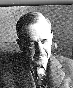 Dr. Richard Teltscher, wine-merchant, patron and patriot, founder of the Jewish Central Museum for Moravia-Silesia in Mikulov (Nikolsburg)in Moravia.